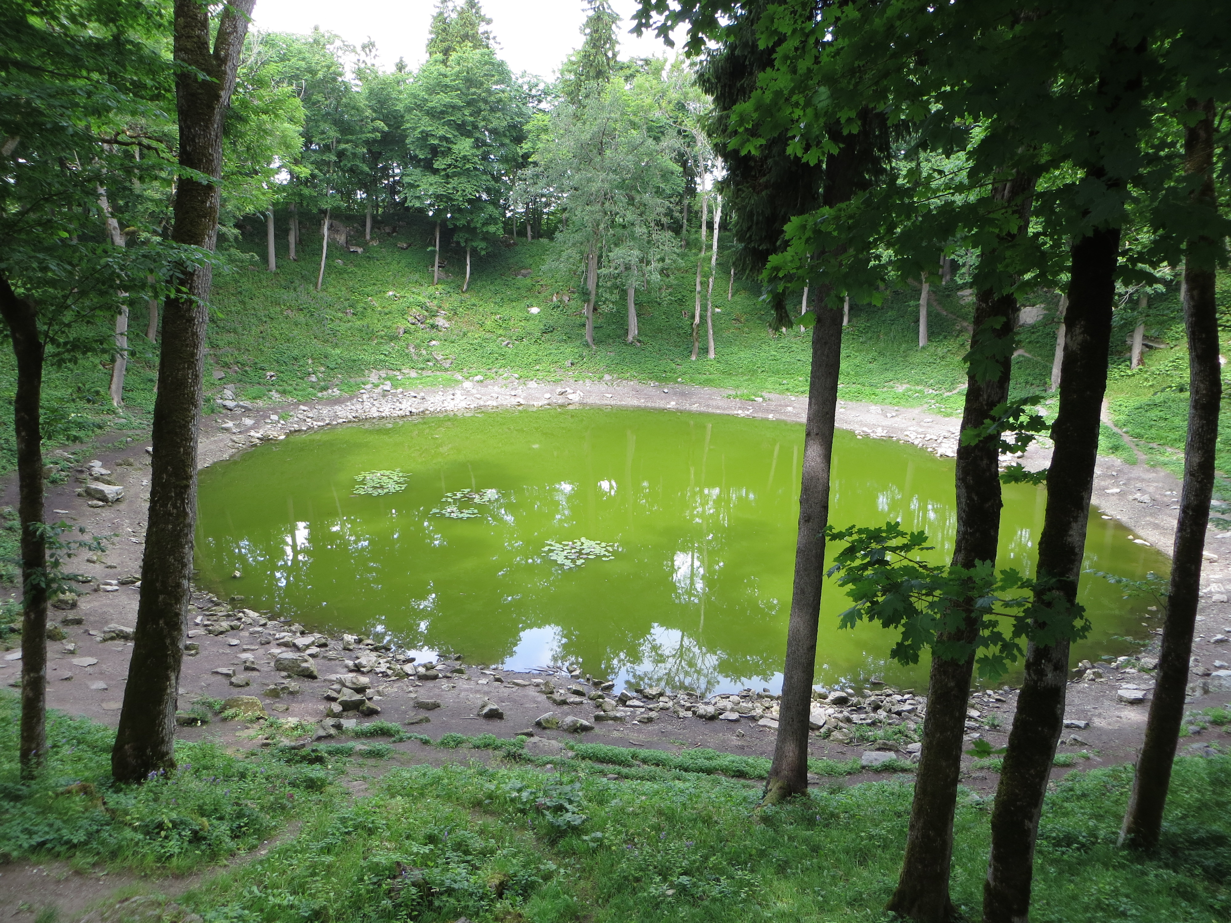 A green pool of water at the largest of the meteorite craters at Kaali on Saaremaa island in Estonia. The nine Kaali craters were formed between 4,000 and 7,500 years ago by meteorite fragments from an iron meteor that broke up into multiple fragments 5-10 km above ground. The original meteor may have been up to 10,000 metric tonnes when it entered the atmosphere at a speed of 15-45 km/sec, but the fragment creating the main crater was only 20-80 tonne when it hit the ground at 10-20 km/sec. This was the last giant meteorite fall in a densely populated area, and it left traces in old European folklore (Edda and Kalevala) as well as in written sources (Pytheas and Scandinavian Sagas). [ read more ]